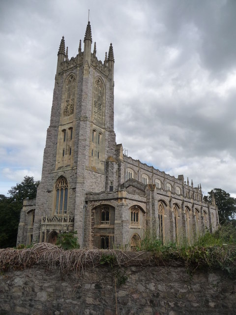 Exmouth: Holy Trinity church tower Looking at the 1477005 from the southwest, seeming very much like the back, over a high wall in Beacon Place. Just to the right, there is pedestrian access to the churchyard.